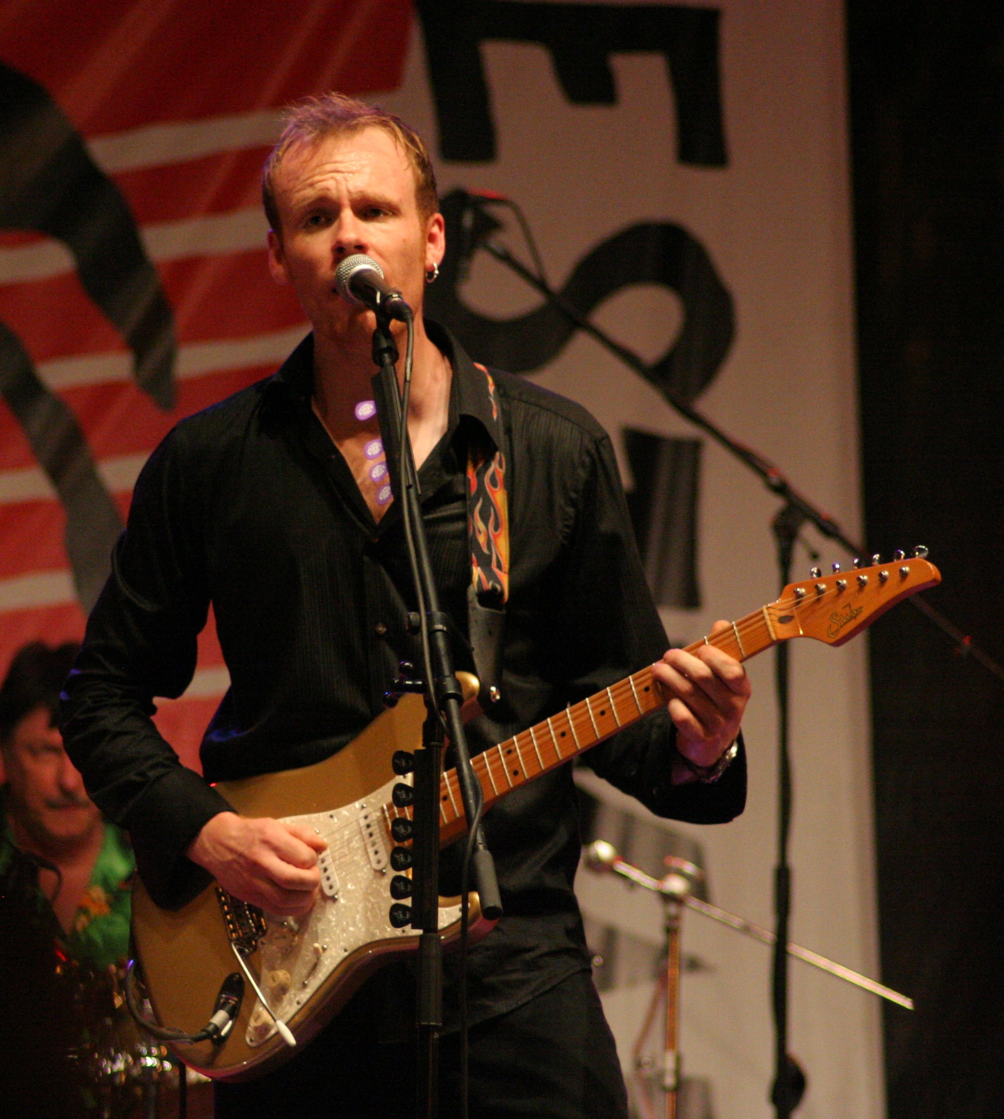 Ten Years After at Suwałki Blues Festival 2009 in Suwałki.